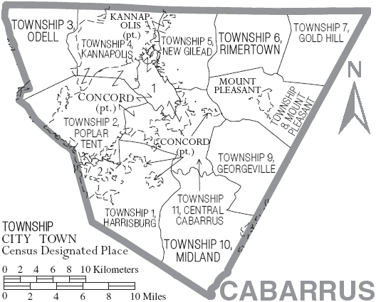 Map of Cabarrus County, North Carolina, United States with township and municipal boundaries